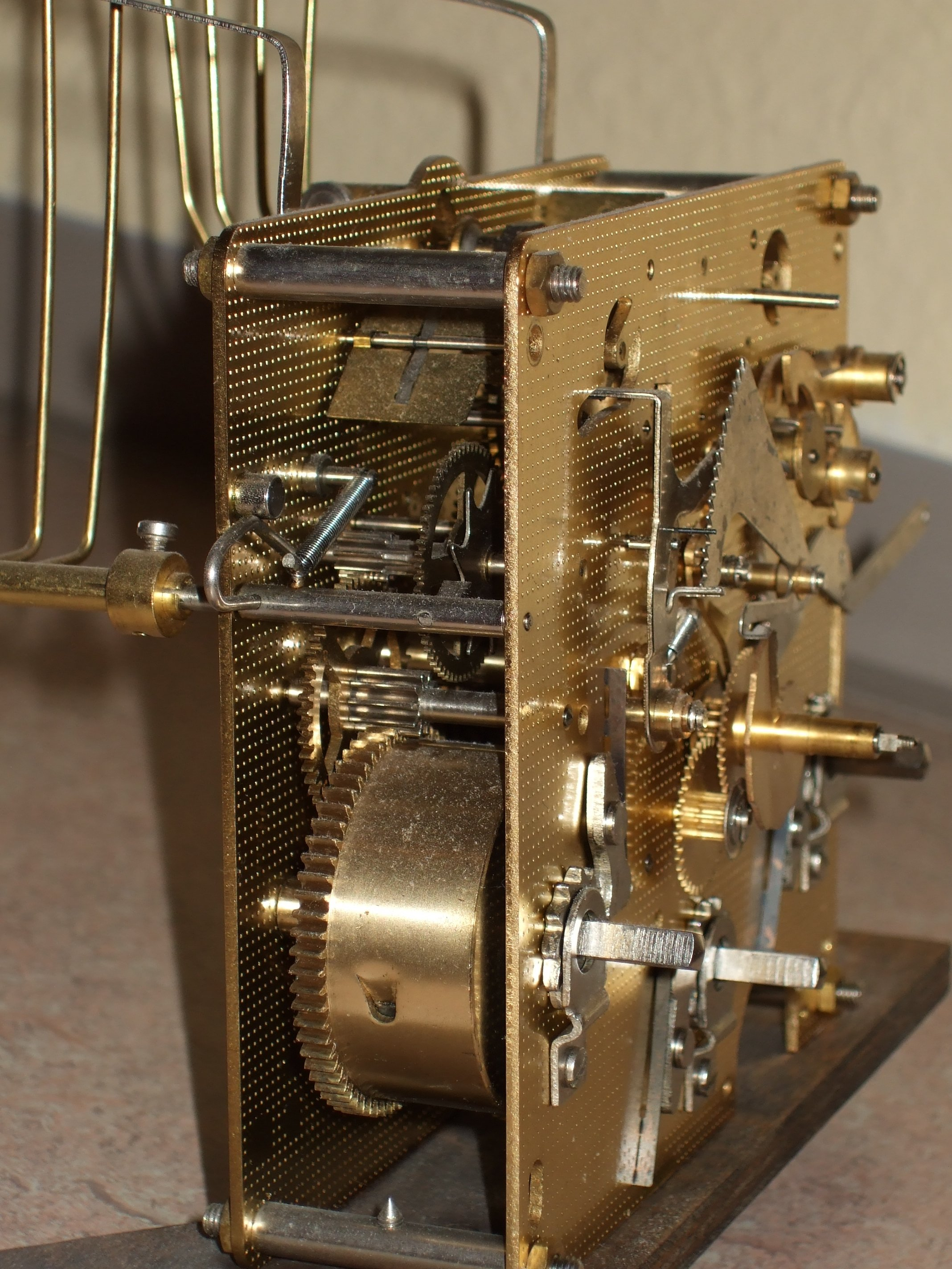 Photograph of a grandfather clock movement that strikes 4/4 Westminster quarters. The mechanism for counting and striking the hours is visible in a semi-lateral view.